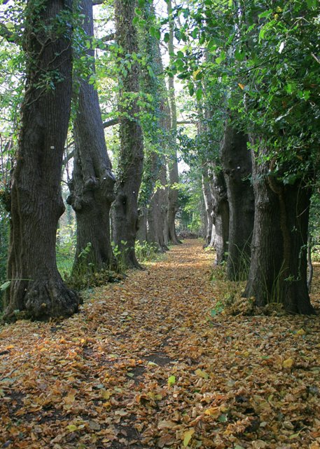 The Monks' Walk A diamond shape avenue of parallel lime trees dating from the 18th century. Part of the gardens that were designed when the seat of Lord Gisborough was the Old Hall that affronted Bow Street. The trees would have originally been lopped off at a height of ten feet and planted within a grassed area. Alum shale was used for the walkway between. Until recently the gardens were completely overgrown but are now being restored by the Gisborough Priory Project for more details.